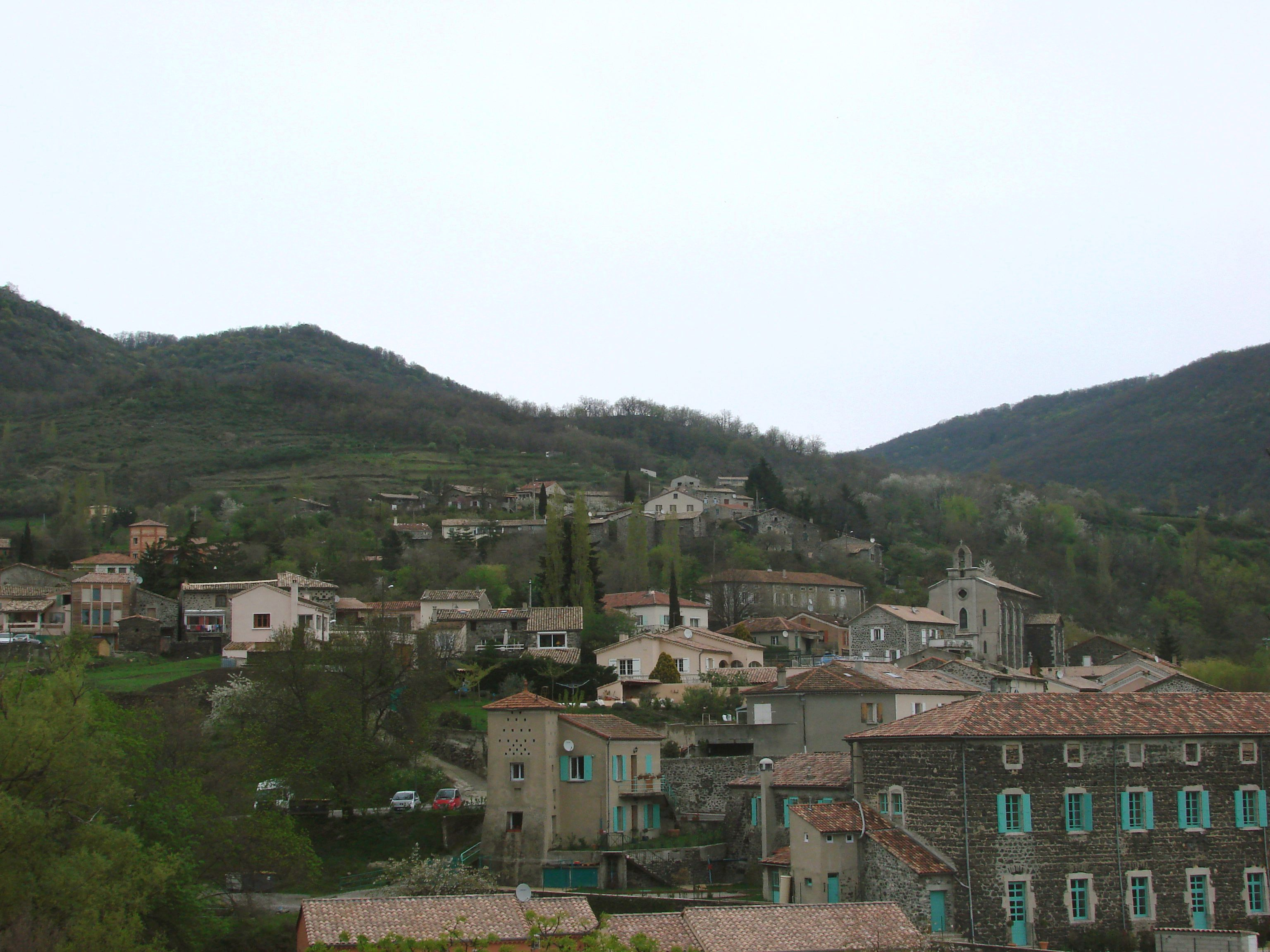 Darbres village in Ardèche, from the Lussas road.